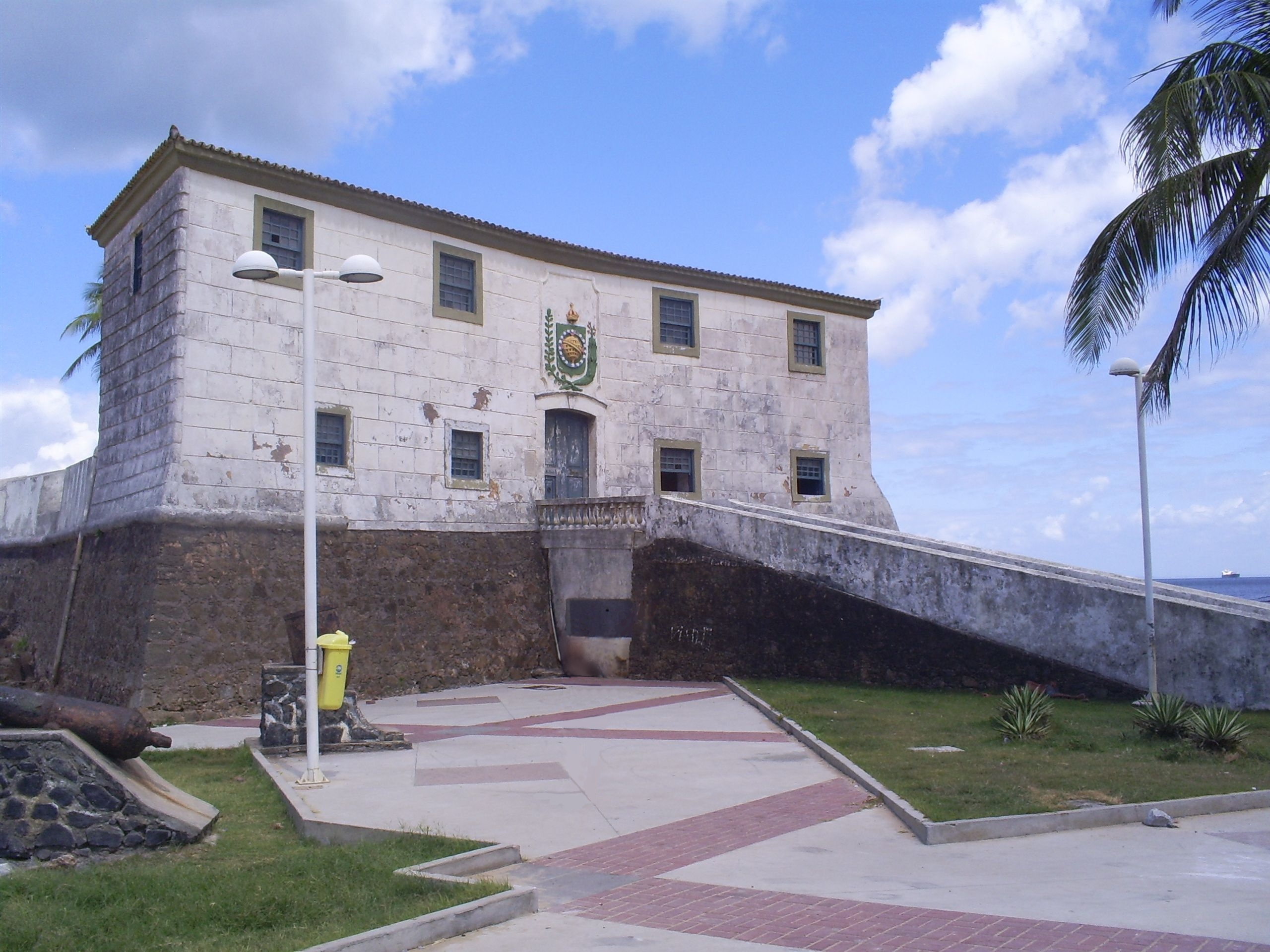 Salvador, Bahia, Brazil: Fortress of Saint Mary of Barra